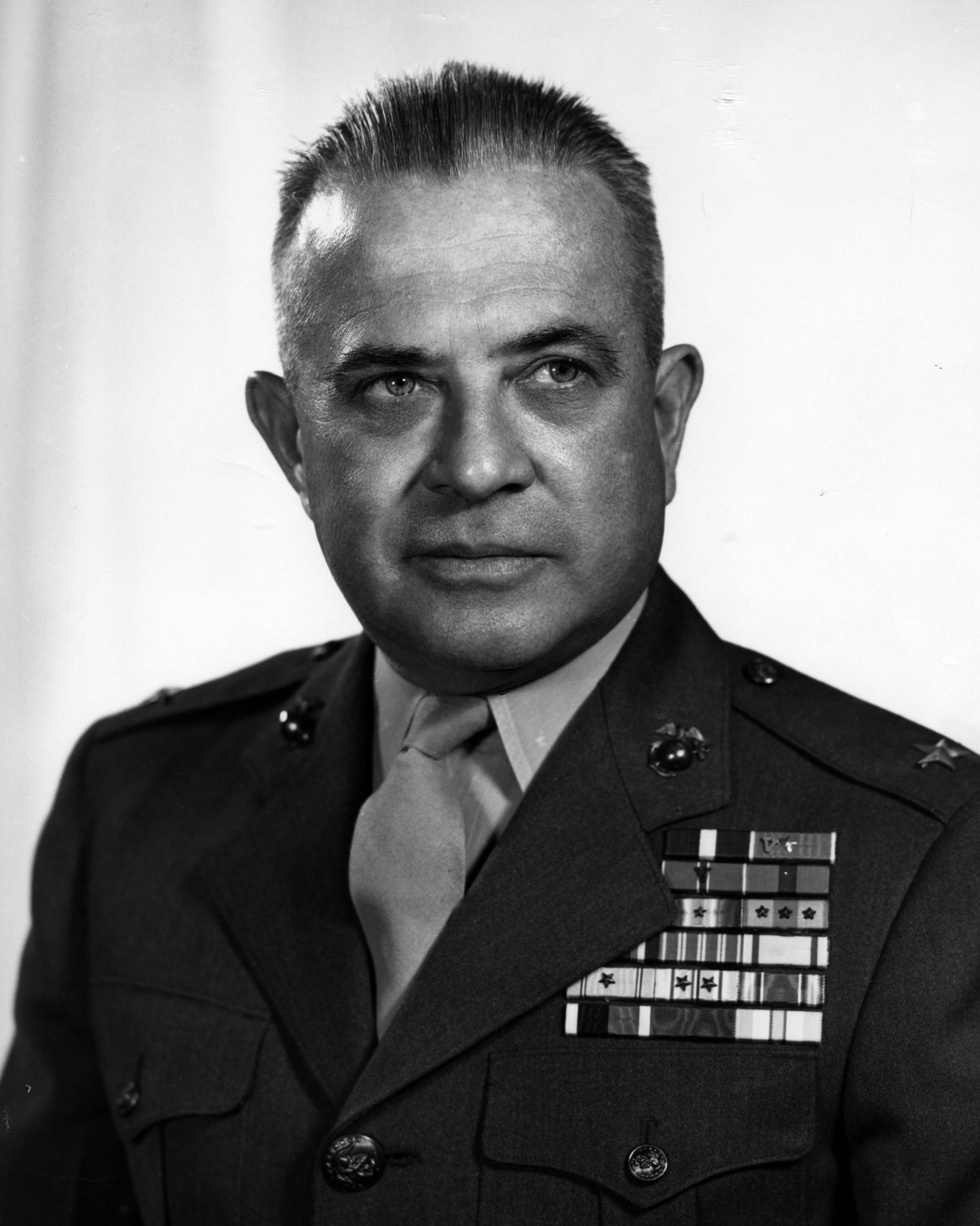 Gregon Albert Williams (January 8, 1896 – September 8, 1968) was a highly decorated Officer of the United States Marine Corps with the rank of Major General, who commanded 6th Marine Regiment during the Battle of Okinawa and later as Chief of staff of 1st Marine Division during Korean War.